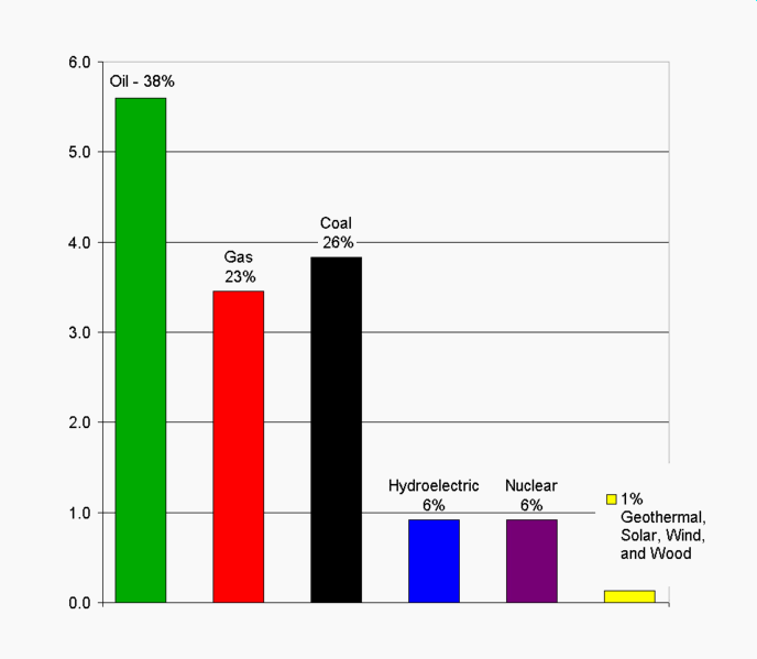 Author: Frank van Mierlo Automatically converted to PNG The PNG crusade bot automatically converted this image to the more efficient PNG format. The image was originally uploaded as "2004 Worldwide Energy Sources.jpg". Previous file history 04:32:46, 21 January 2007 . . Mierlo (Talk